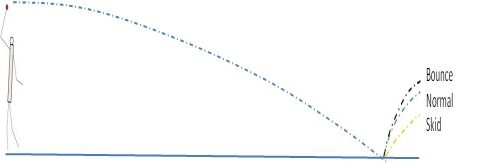 Cricket ball "bounce", when a spinner is bowling